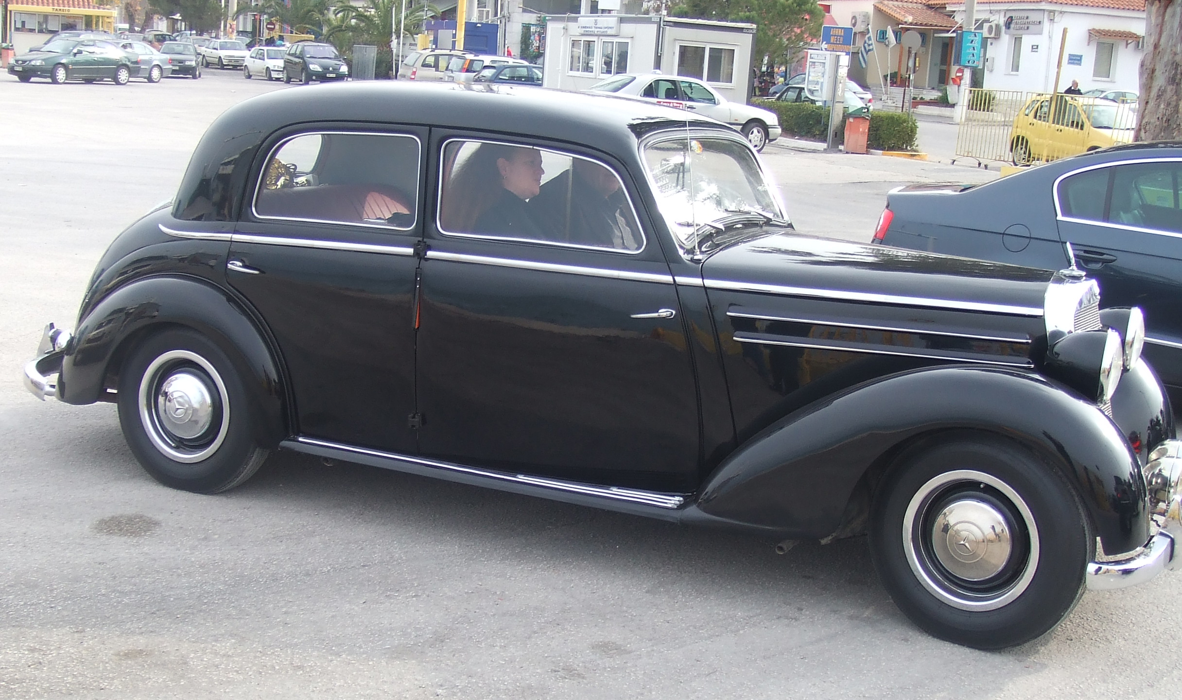 Mercedes 170 S /W191 in Oropos, Greece. Photo:Christos Vittoratos